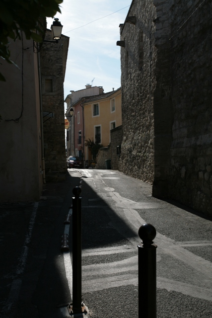 The village of Velleron, Vaucluse, France